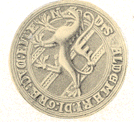 Seal of Duke Valdemar of Finland from 1307 29/10. Image from book Finlands medeltidssigill, Reinhold Hausen, Helsinfors 1900 (100+ years ago).